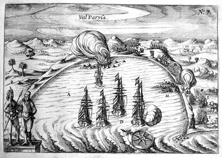 Joris van Spilbergen in the bay of Valparaiso (1615)